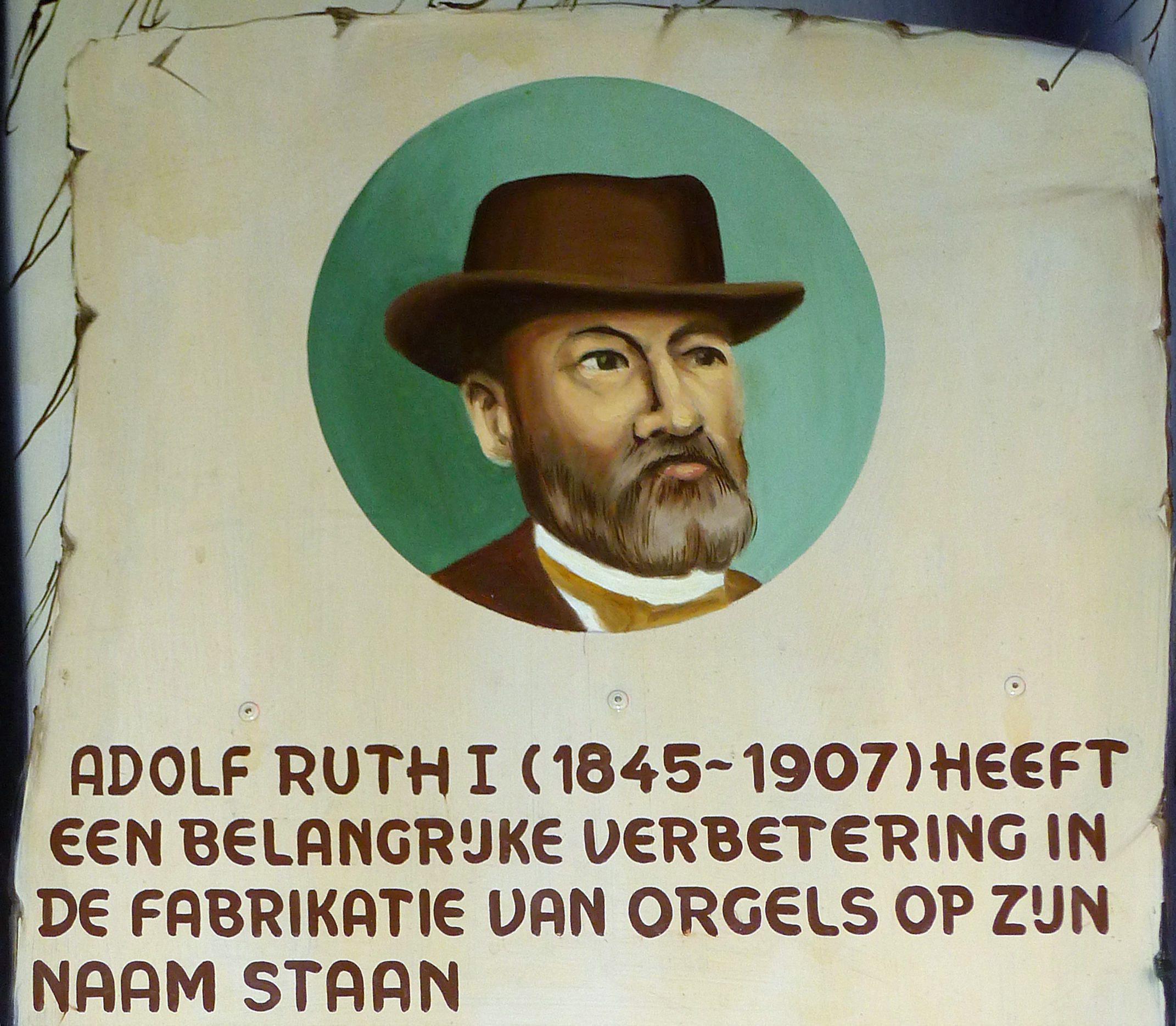 Adolf Ruth I (1845-1907)